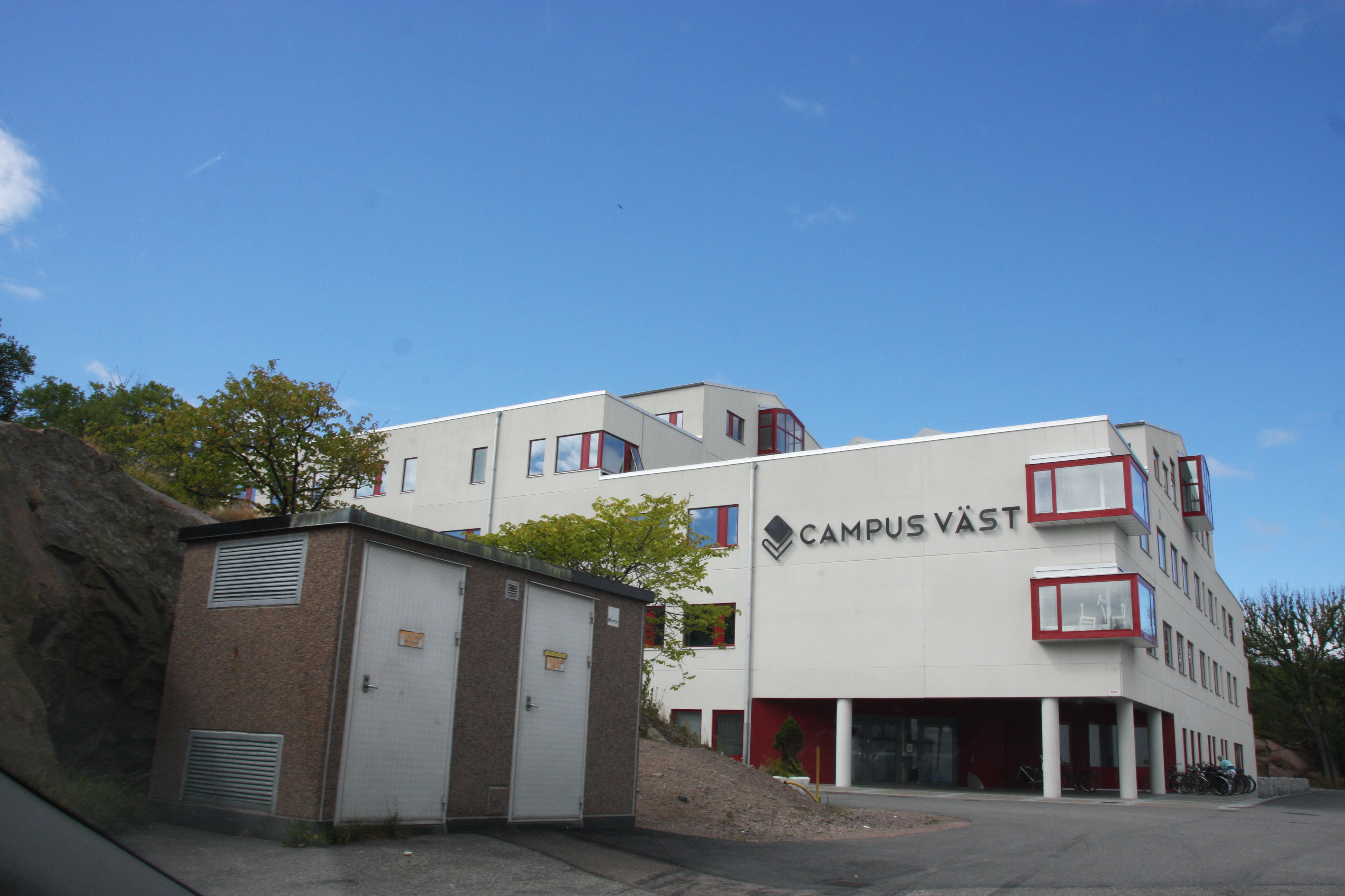 Campus West - the Department of Högskolan Väst (College West) that is located in Lysekil, western Sweden.